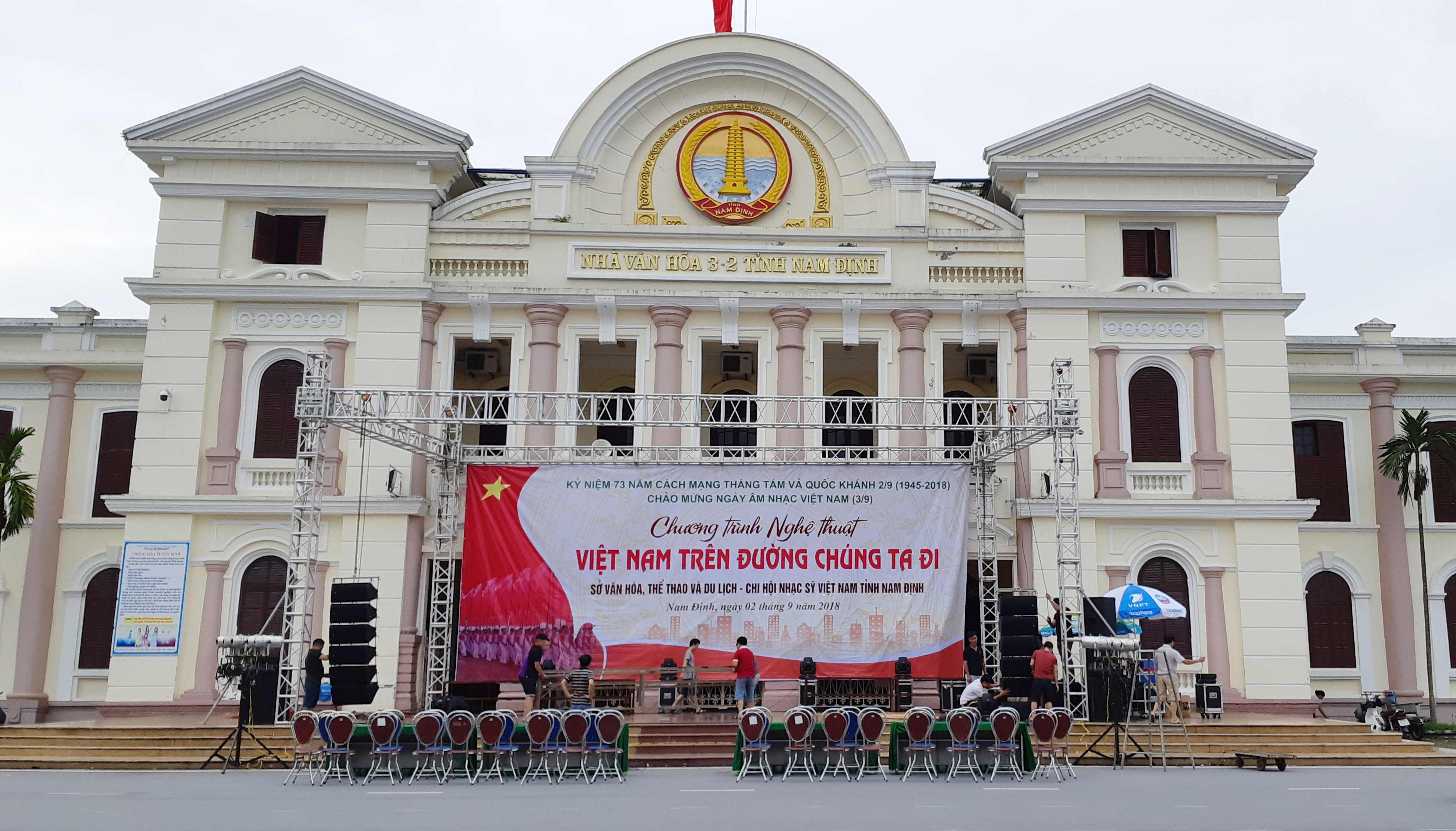 Nam Dinh 3-2 Culture House, at 155 Nguyen Du Road, Nam Dinh City, Nam Dinh Province, Vietnam.